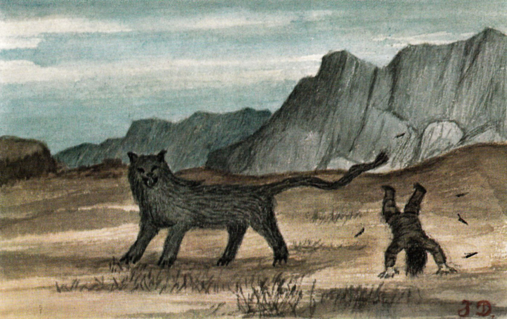 Jakob Danielsen - 04 Kaassassuk and master of power II